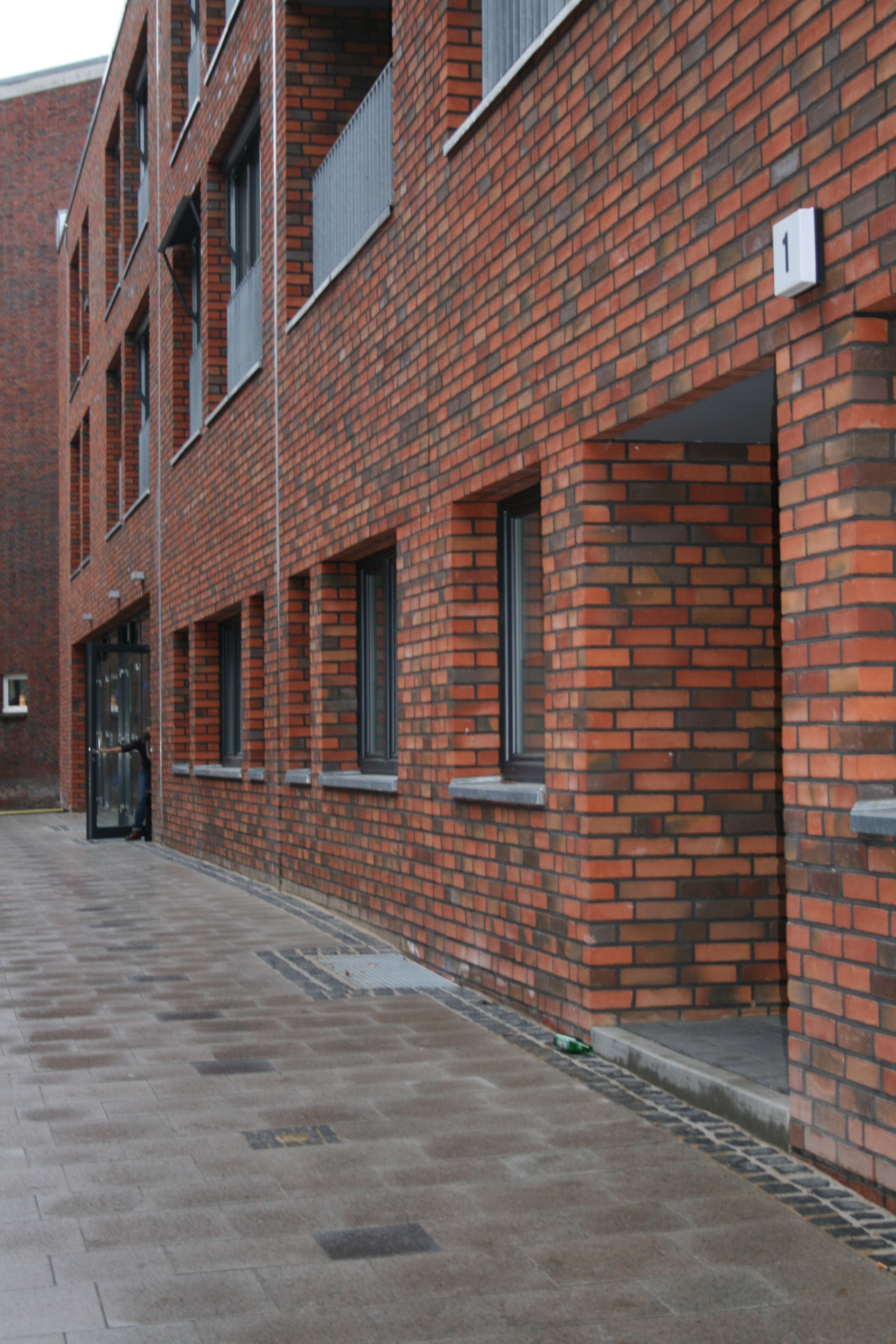 The building Harders Kamp 1 in Hamburg-Bergedorf, with the Stolperstein for Inge Hardekop